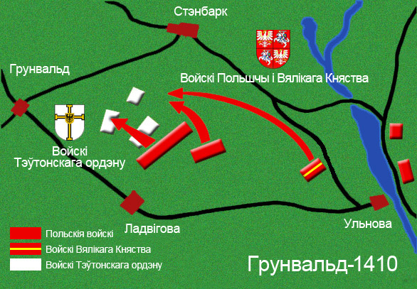 Author: Screen2